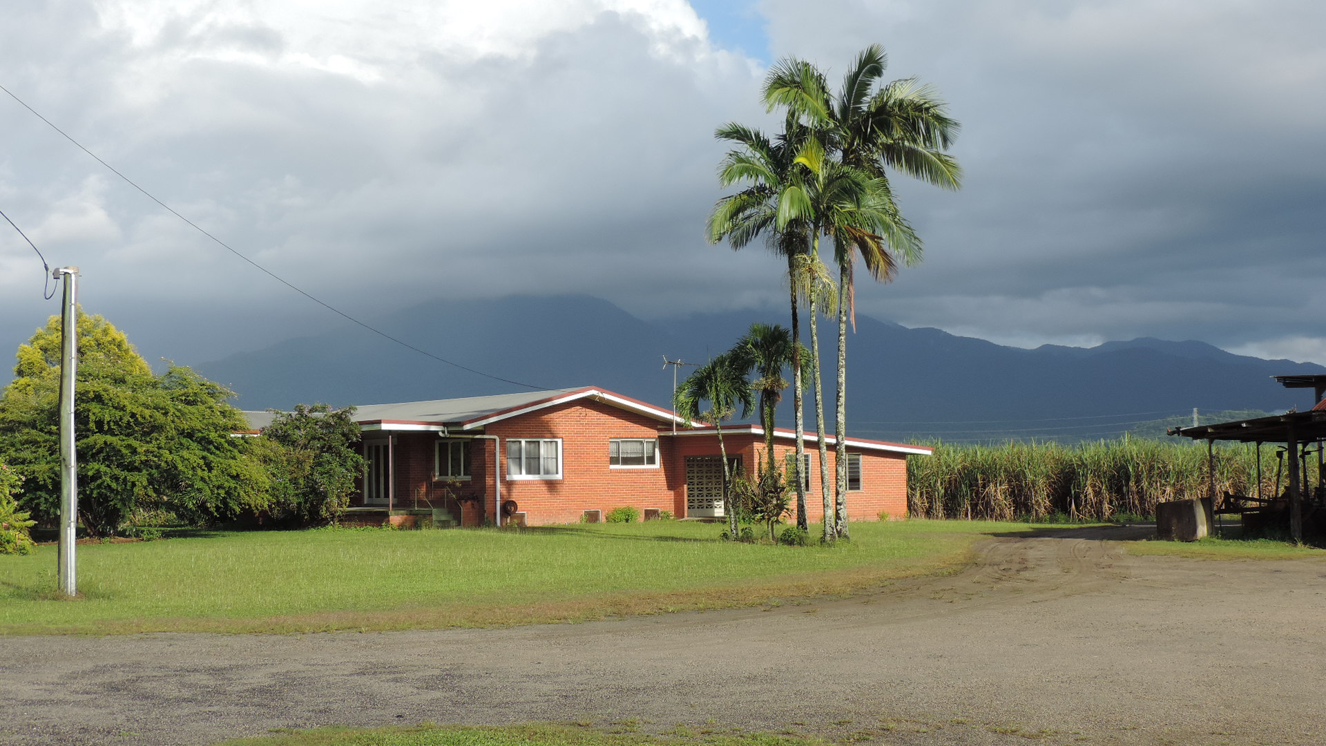 Looking north-west from Buckland Road towards farm house and distant mountains, Mirriwinni, 2018